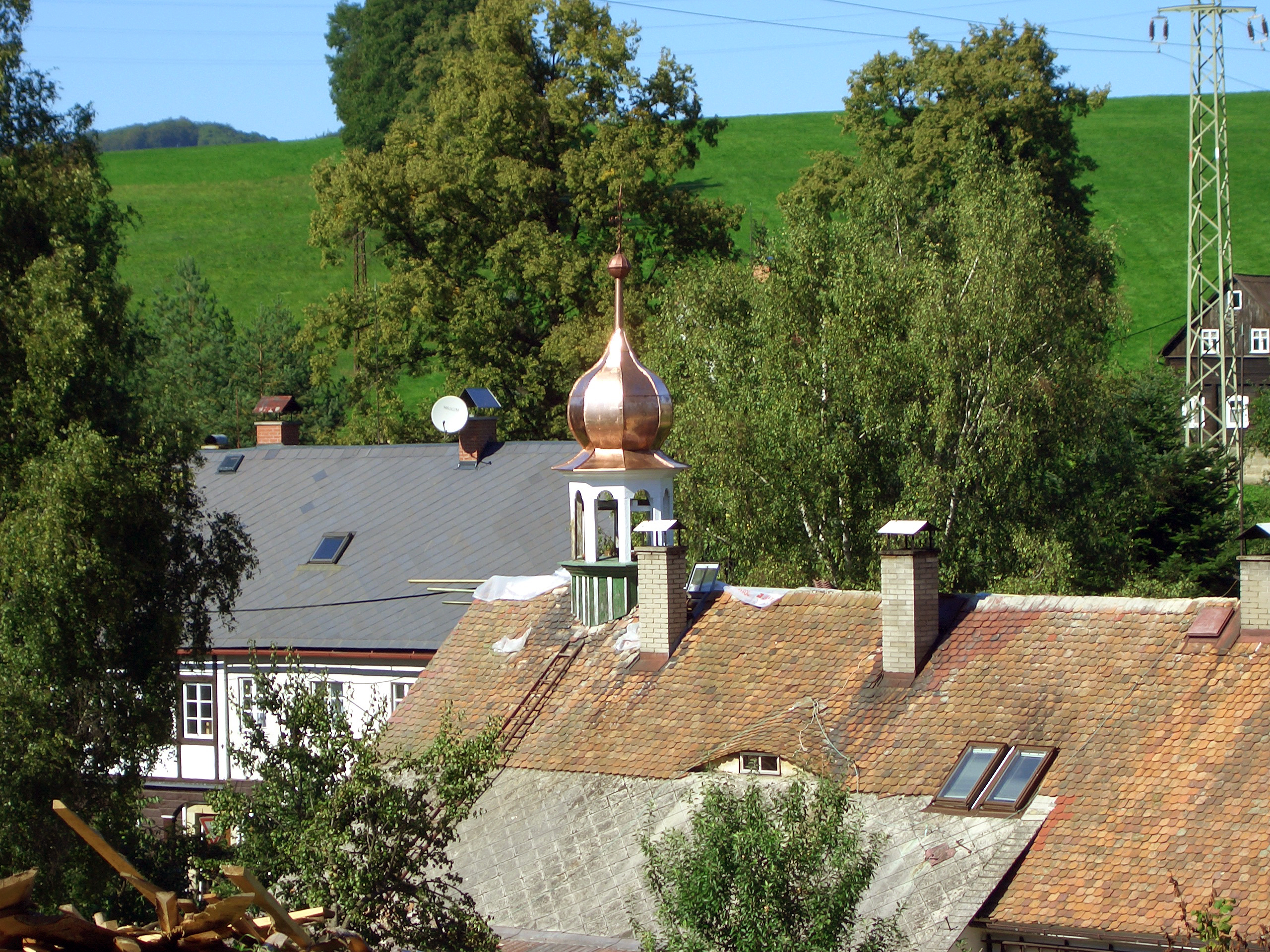 Recently copper-plated church-roof in Studený (Kunratice) (German: Kaltenbach) in the Czech Republic.